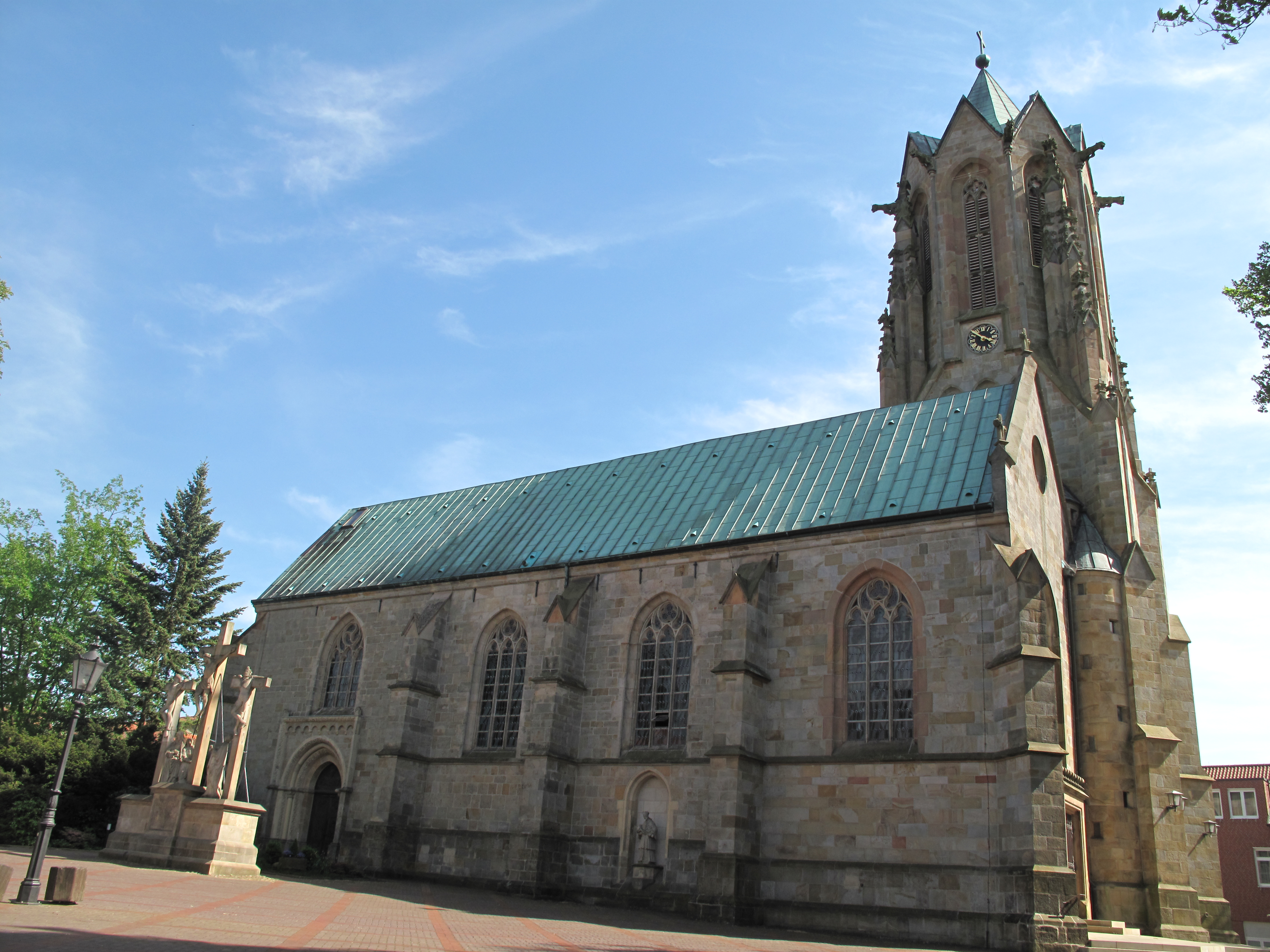 Meppen, church: Sankt Vituskirche